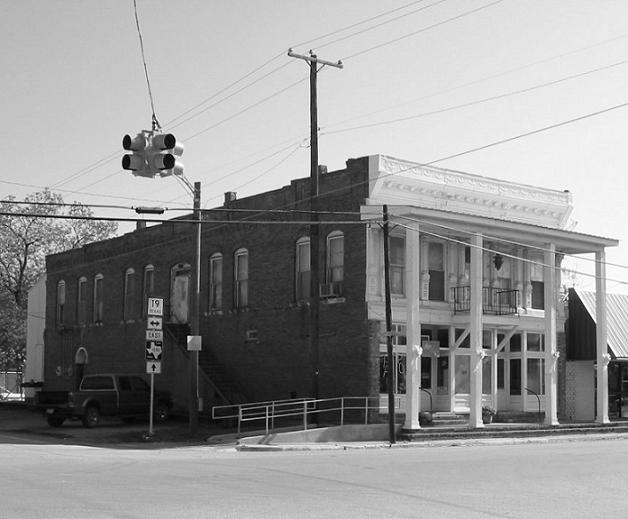 C. R. Rich Building. Charles Rufus Rich (1857-1945) completed this building in 1906 as a combination ground floor general mercantile store and second floor residence. A native of Texas, Rich had opened his business in Lovelady in the early 1900s. The commercial structure exhibits Italianate detailing and features paired Corinthian Colonettes beside the upper story windows. Ownership of the building remained in the Rich Family for nearly 60 years. Record Texas Historic Landmark - 1985. Texas Historical Commission.